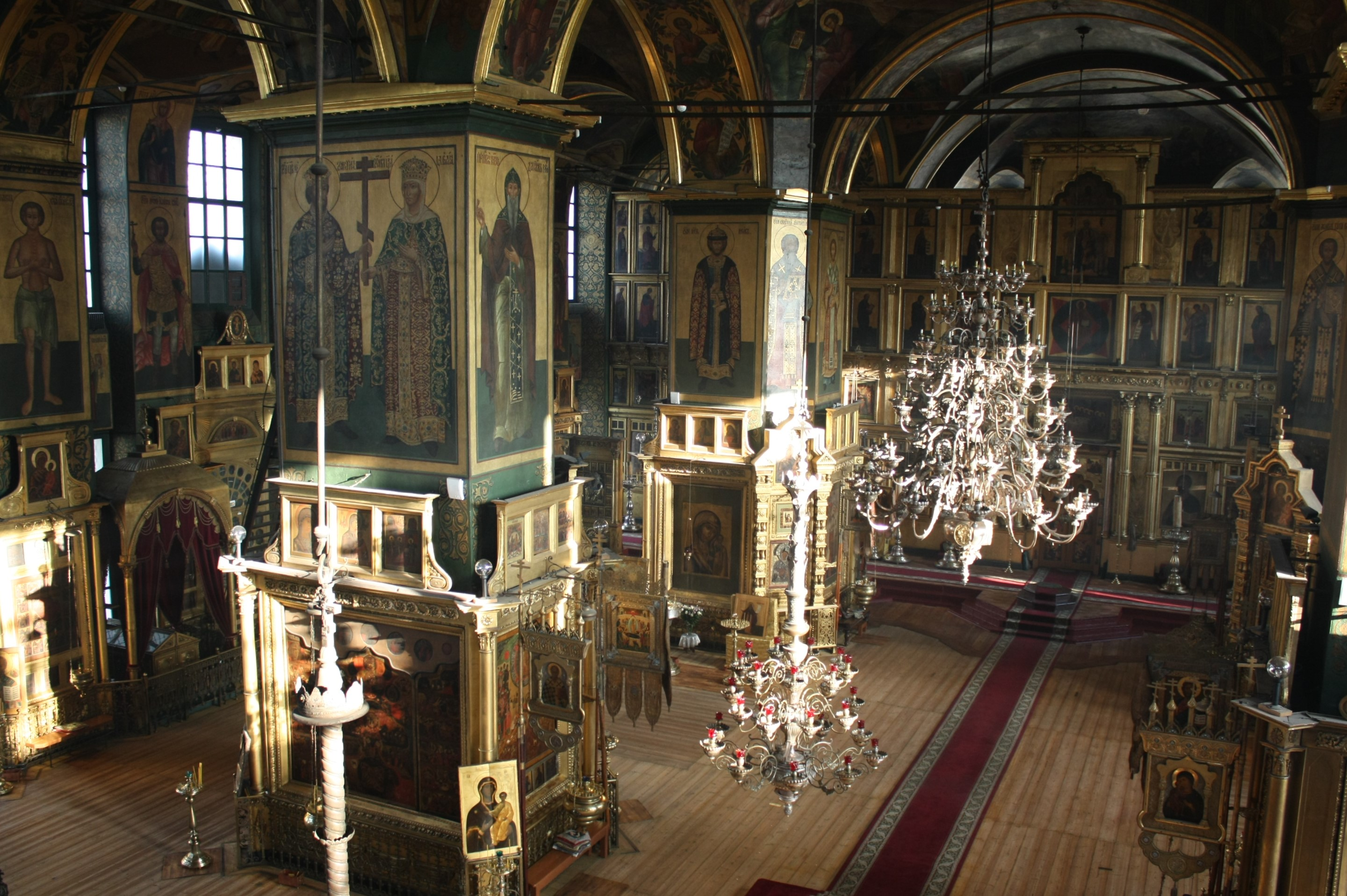 . Рогожское